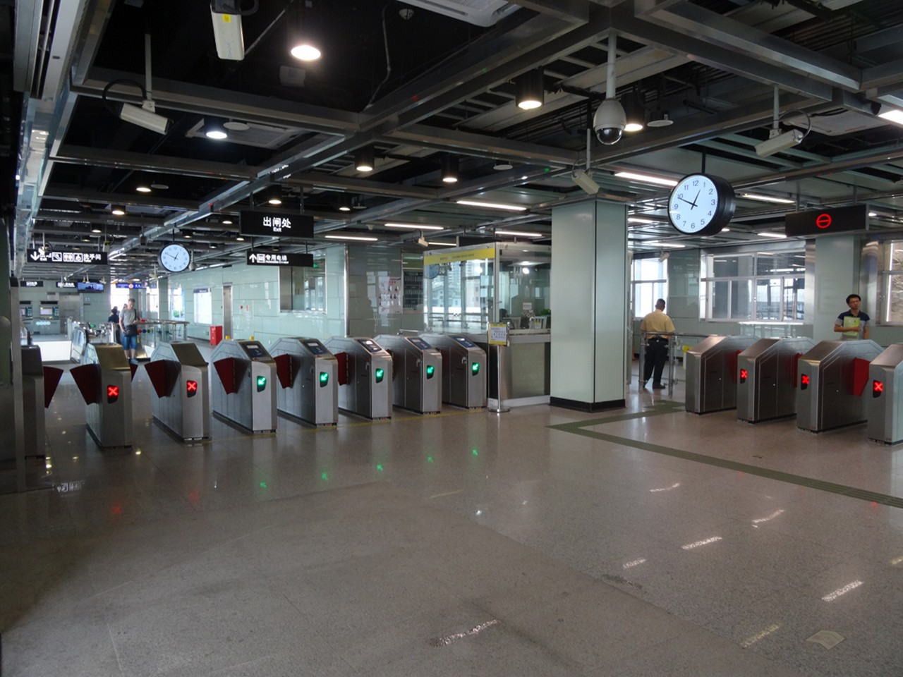 橫沙站嘅南站廳